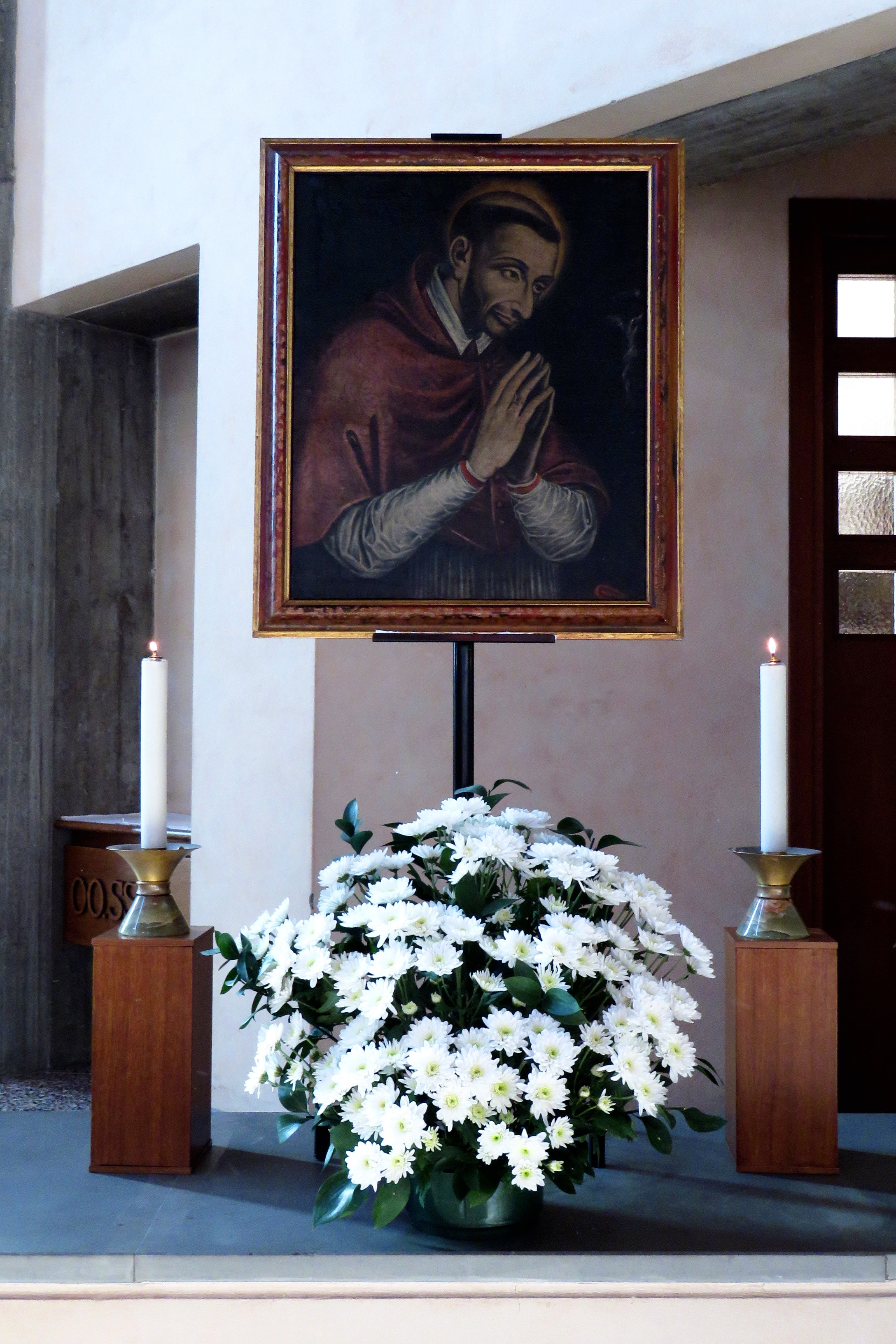 Saint Charles painting (about the end of XVIII century), given from Rho's Church. This is a photo of a monument which is part of cultural heritage of Italy.